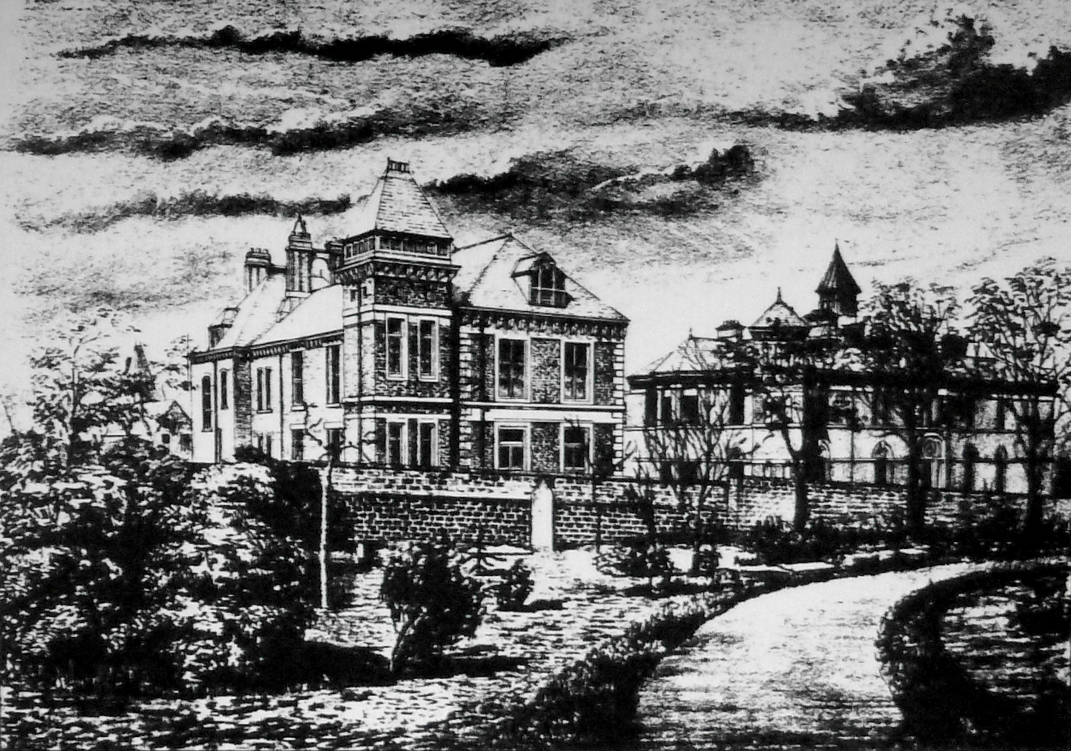 1895 drawing of Beckett Hospital, Barnsley, South Yorkshire, England. This is the hospital where John Fletcher Horne (1849-1941), mayor of Barnsley 1900-1901, was consultant surgeon for many years. Parts of the hospital building were later incorporated into Barnsley and District Hospital.